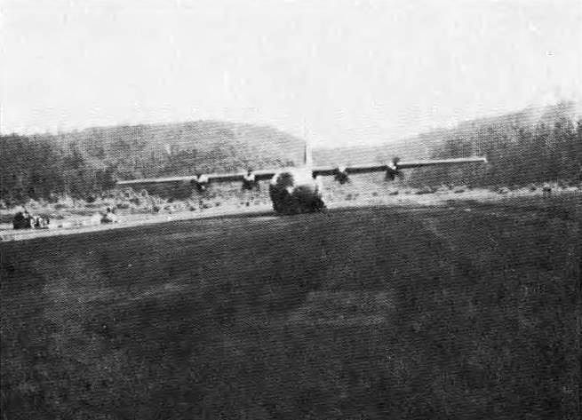 My intention in uploading this photograph is to show a particular event in the history of Vietnam, namely the battle of Kham Duc.